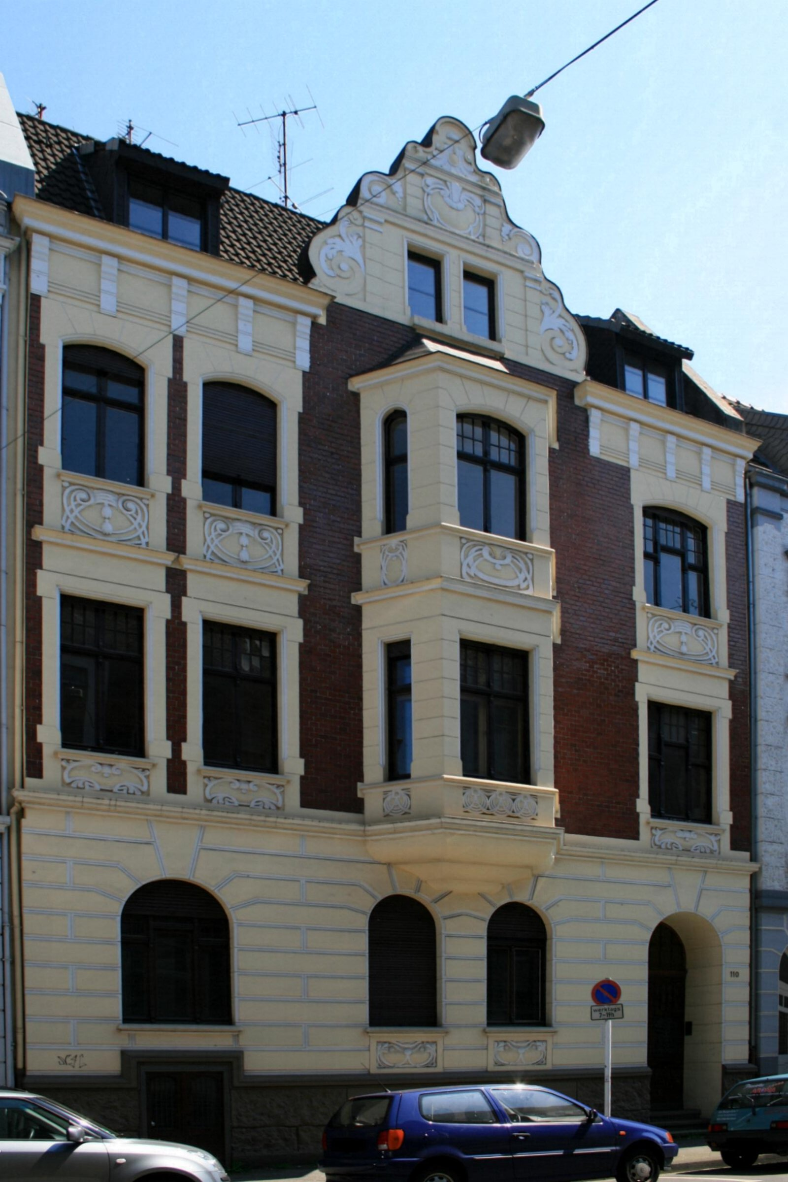 Cultural heritage monument No. R 043 in Mönchengladbach